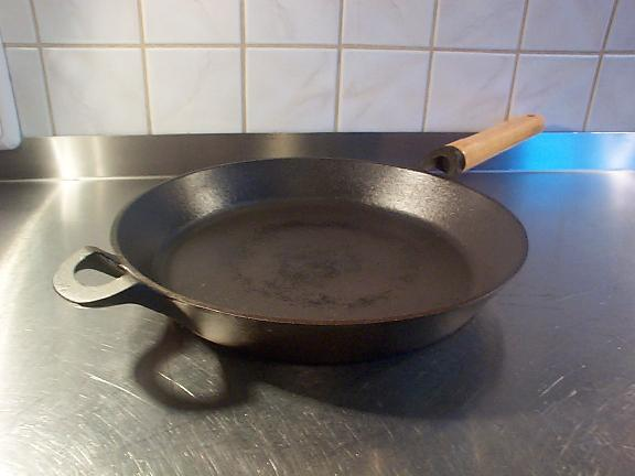 Gusseiserne Pfanne (IKEA), pan (cast-iron)